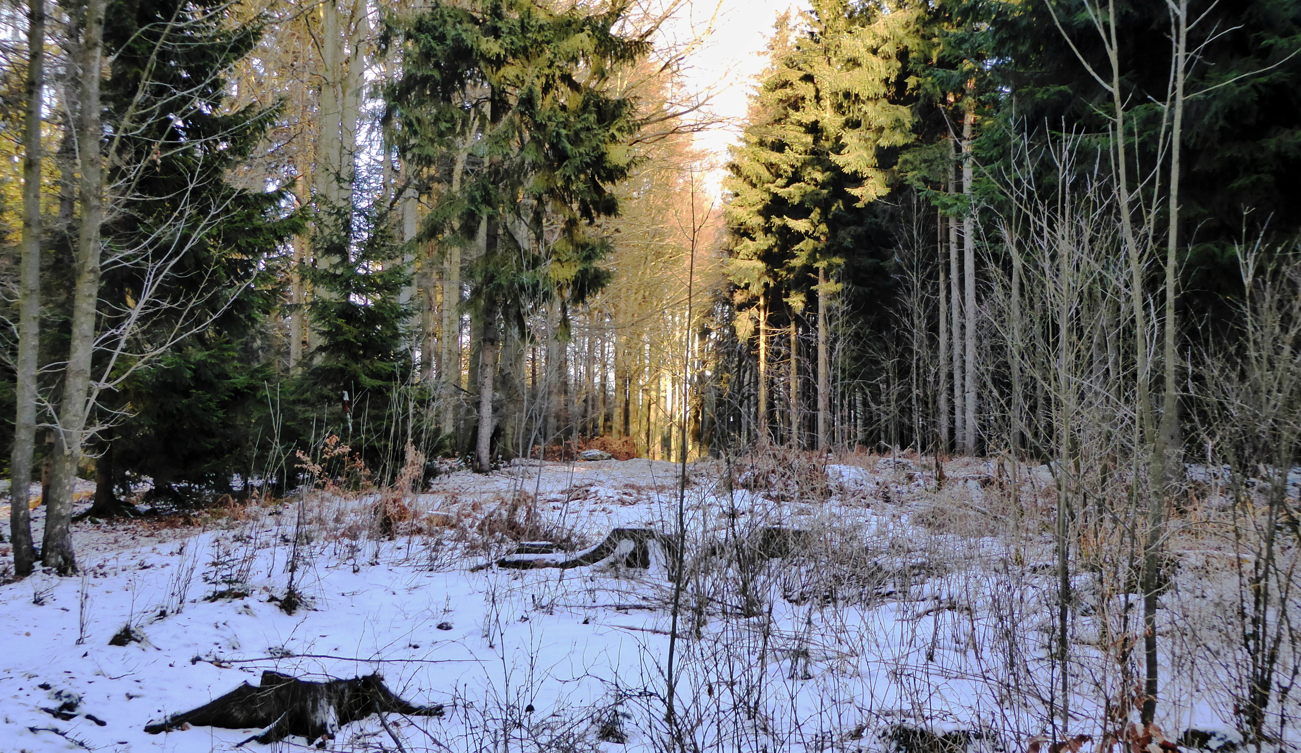 Height point (trigonometric) with name Karlštejn in the level of 783.4 m above sea level and the highest peak of the georelief in the elevation 784 m asl is located in the forest stand on the cadastral area of Svratouch. The locality is of the part the geomorphological district with name "Borovský" forest. Photo-location: Czechia, Pardubice Region, the village of "Svratouch", the forest vegetation around of the height point with named "Karlštejn", azimuth 75°.